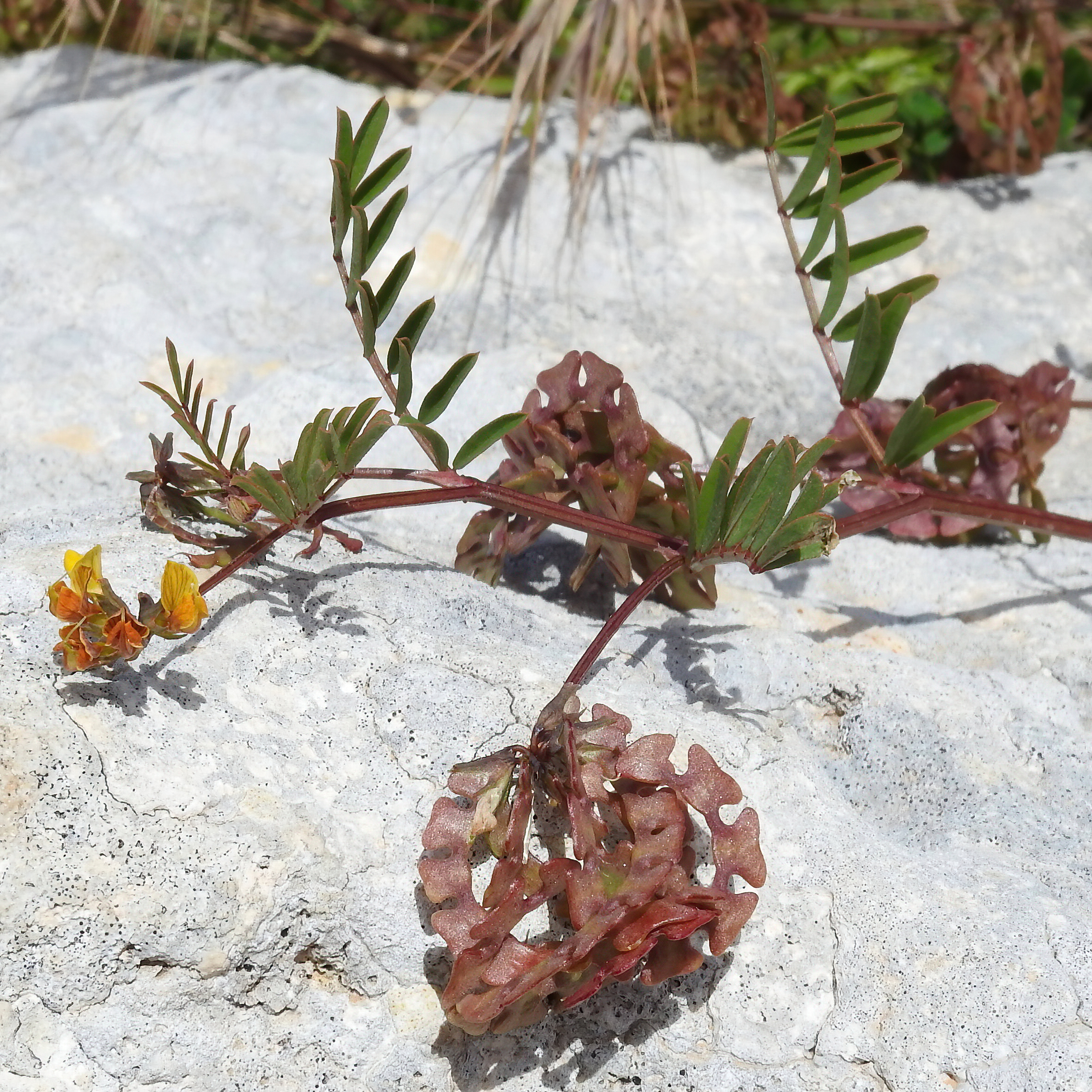 Hippocrepis multisiliquosa at Syracuse, Italy